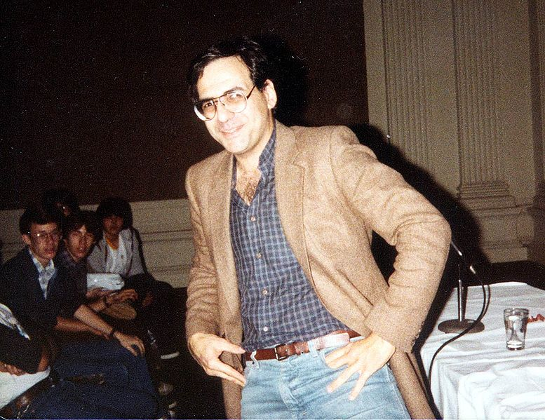 Steve Gerber at at a comic book convention in 1979